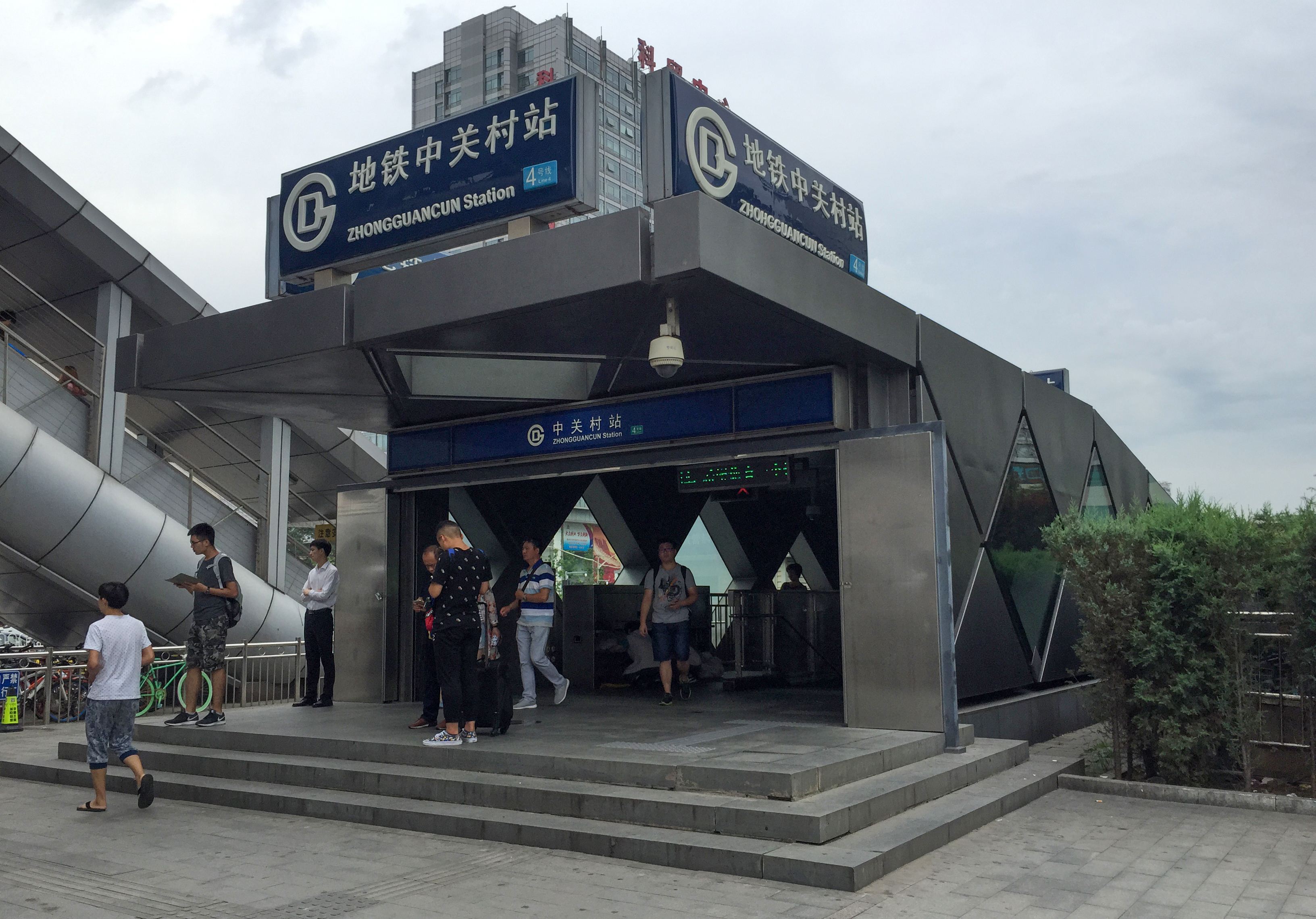 Facing 4th Ring Rd.